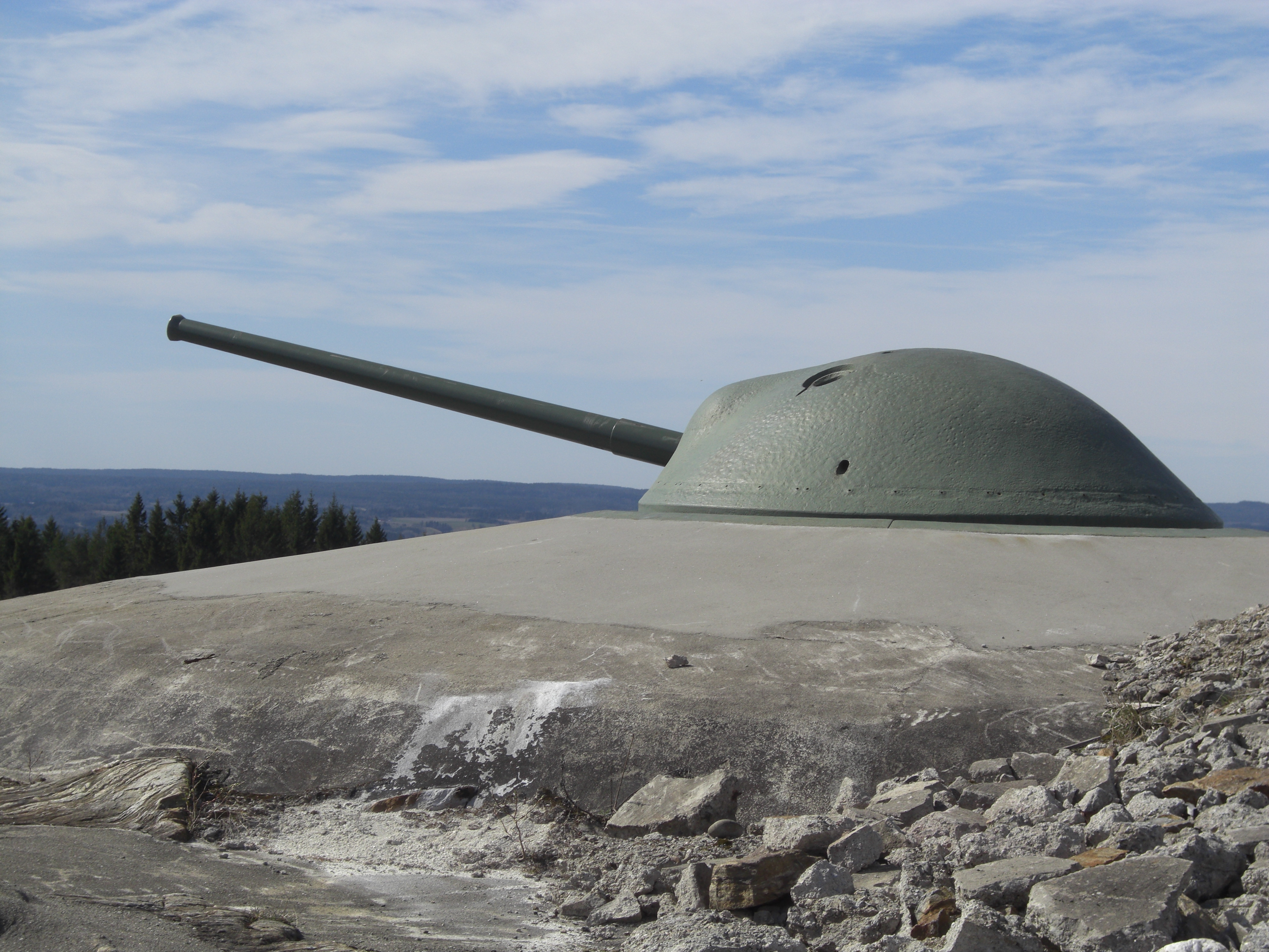 Cockerill 7,5 cm turret gun